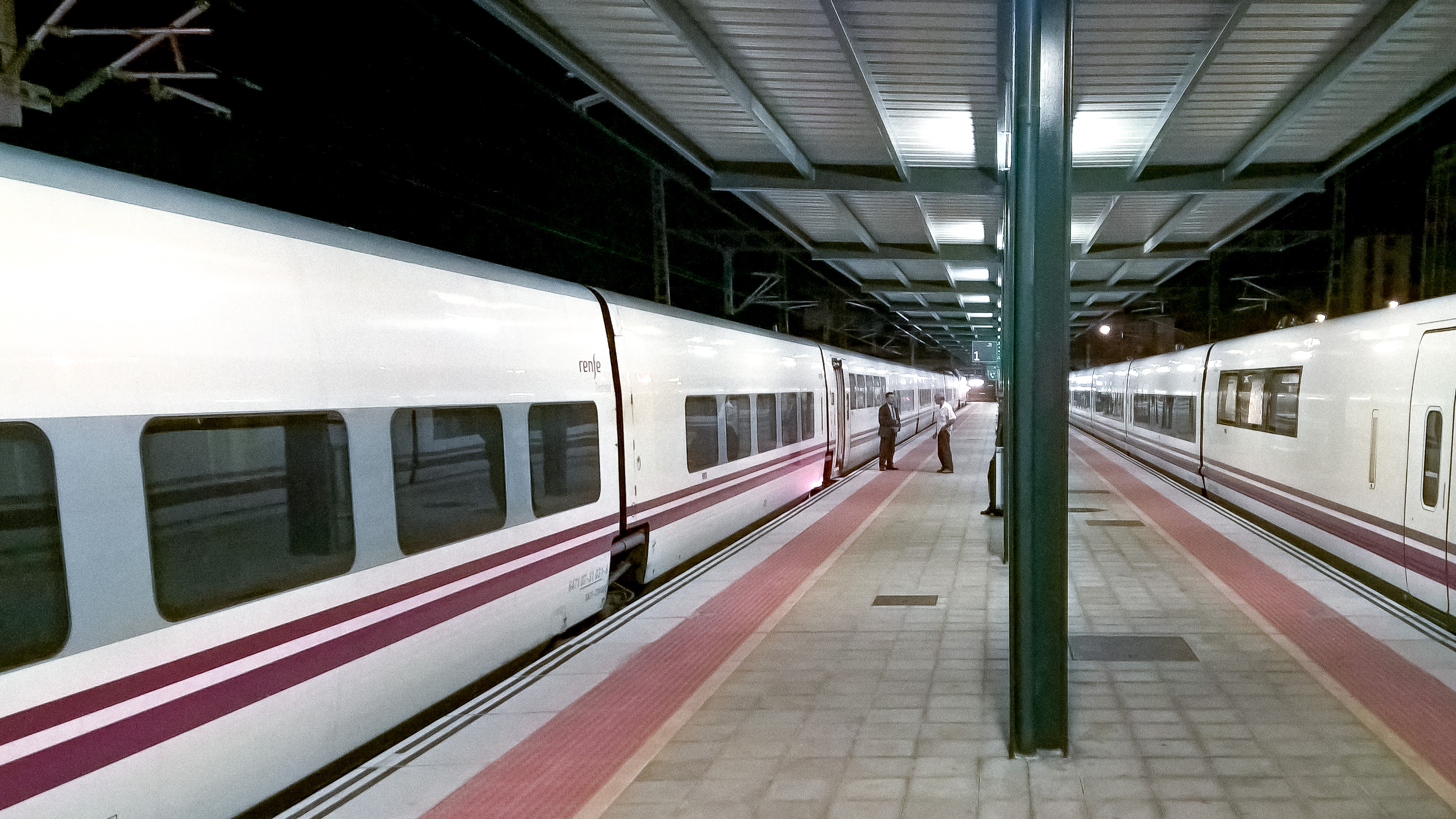 TRENHOTEL train in the Leon Station